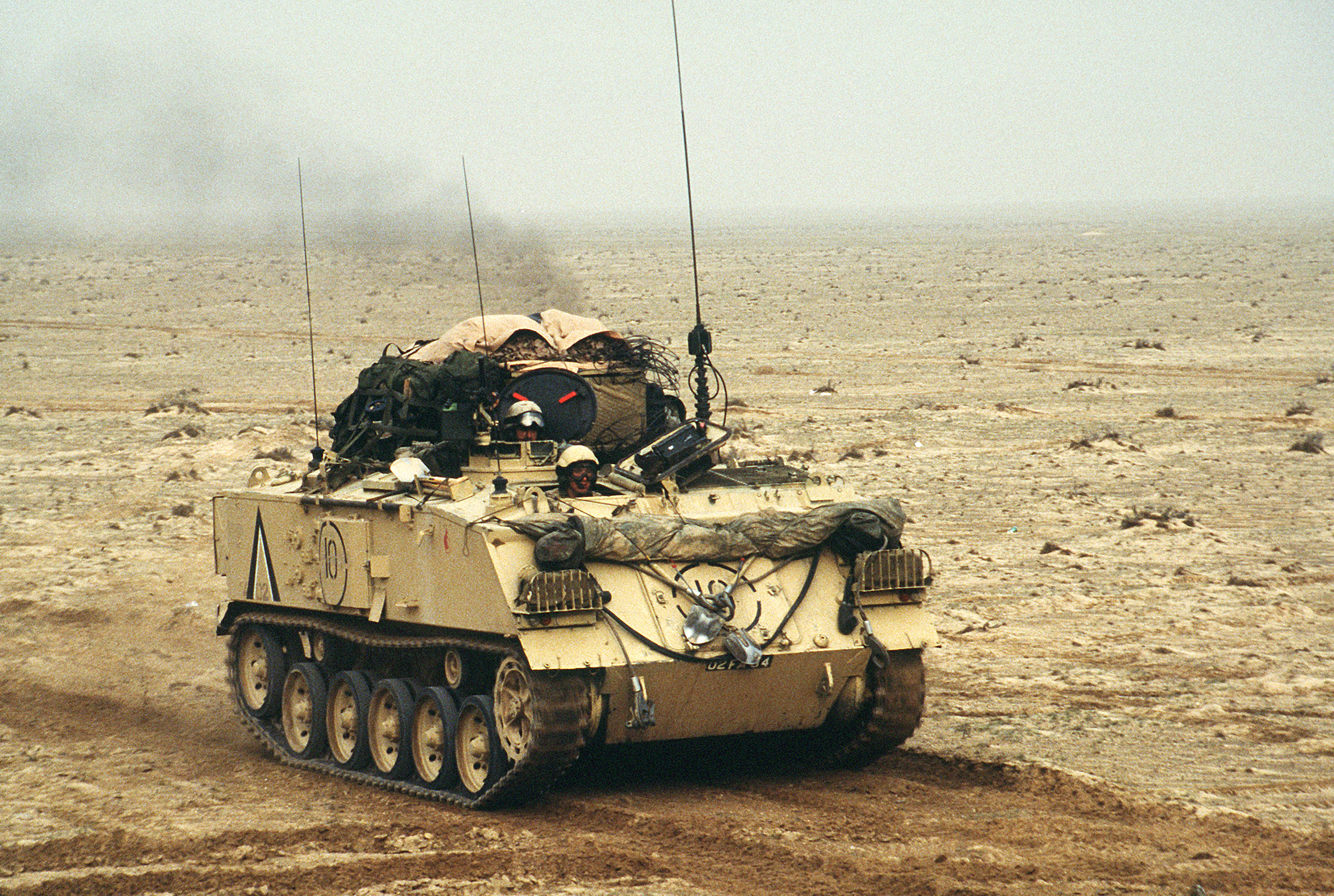 An FV 432 armored personnel carrier of the 7th Brigade Royal Scots, 1st United Kingdom Armored Division, crosses into Kuwait from southern Iraq during Operation Desert Storm.